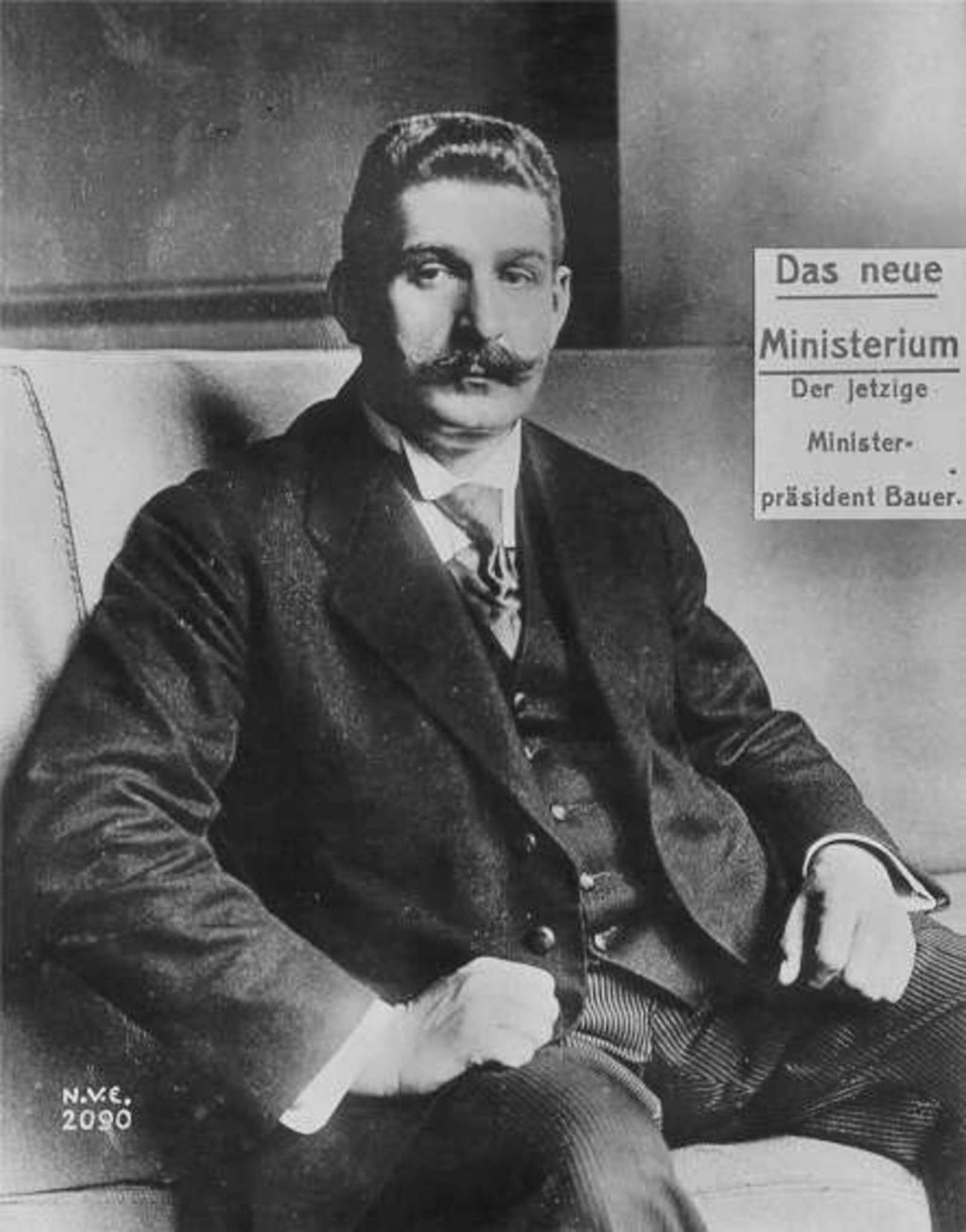 Gustav Bauer- Chancellor of Germany from 1919 to 1920